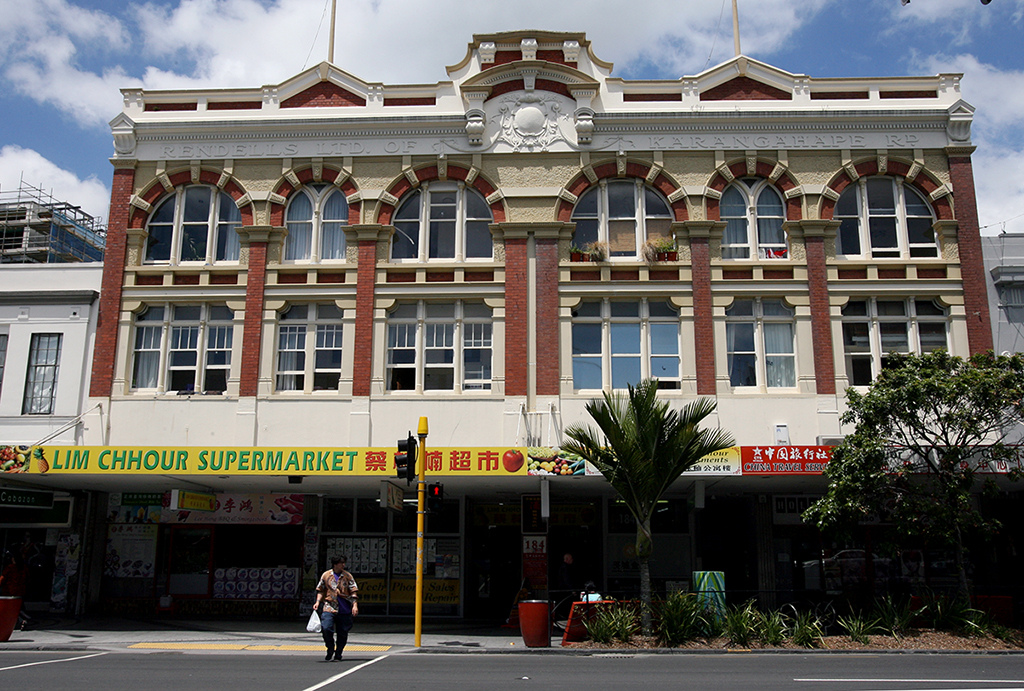 Exterior of the former Rendells department store, designed by architect William Alfred Holman, at 184 Karangahape Road in Auckland, New Zealand. Photographed on December 4, 2008.